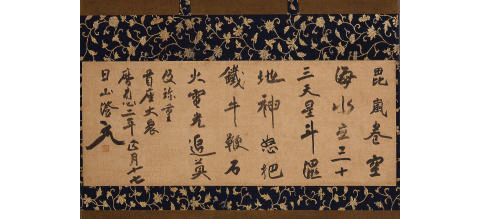 Death verse (遺偈, yuige). Written by Qingzhuo Zhengcheng, a high ranking priest of Kennin-ji, on the day of his death which shows in the style of the writing. Located at Tokiwayama Bunko (常盤山文庫?), Kamakura, Kanagawa, Japan.